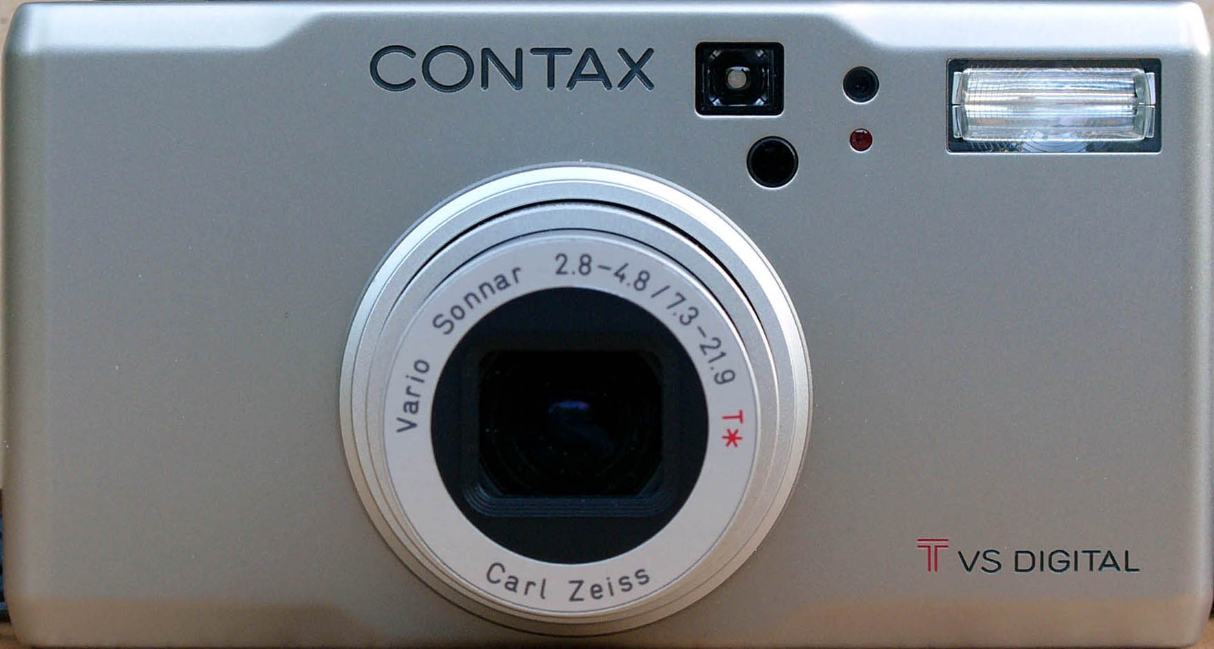 Compact camera CONTAX TVS Digital with Zeiss lens Vario Sonnar 2.8-4.8/7.3-21.9, titan body, 2560x1920 pixel (5 MPx), introduced 2002, sold until 2005, start price 1000.- €